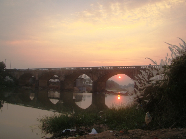 Mahendra Tanaya River